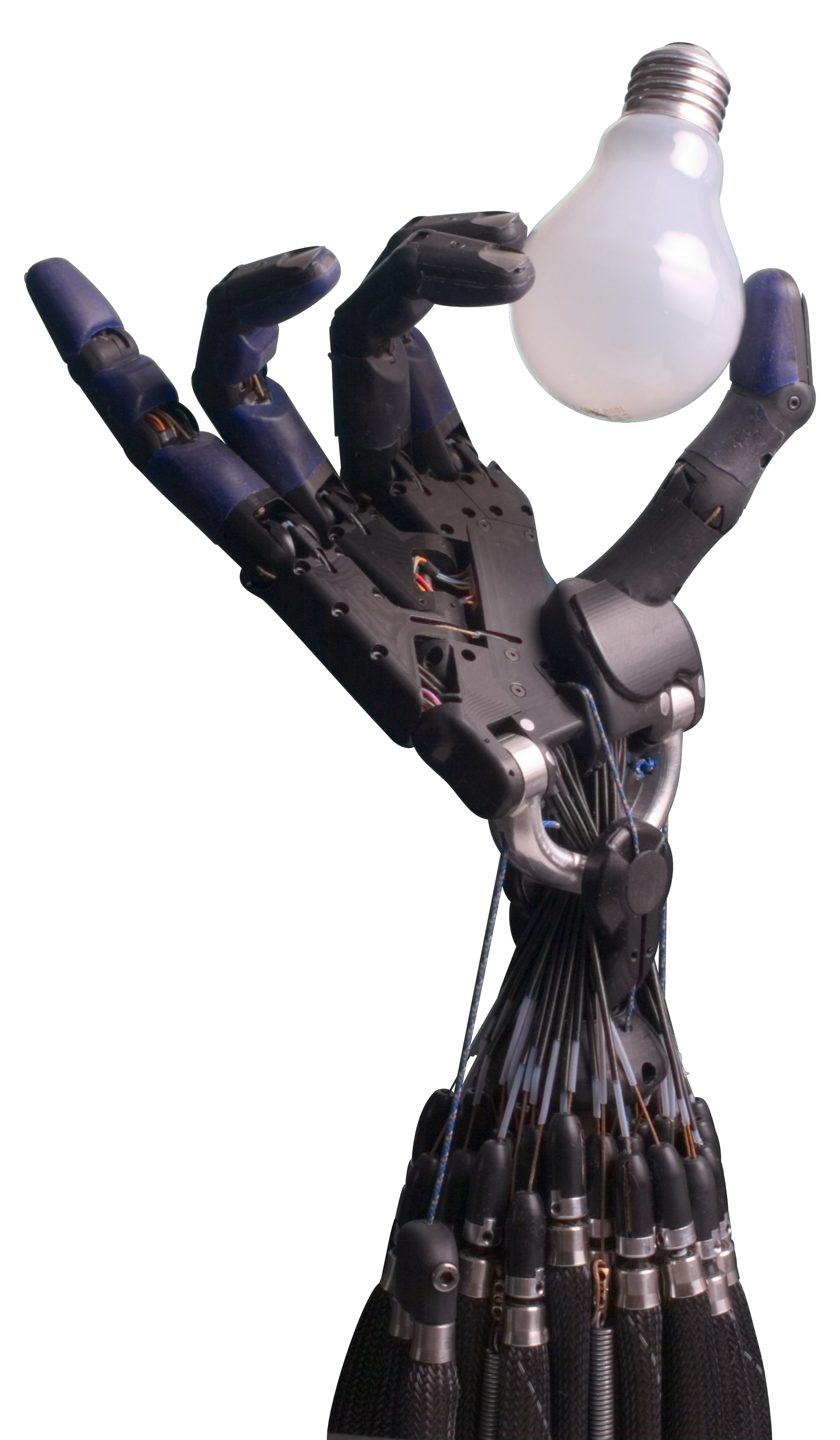 Shadow Dexterous Robot Hand holding a lightbulb